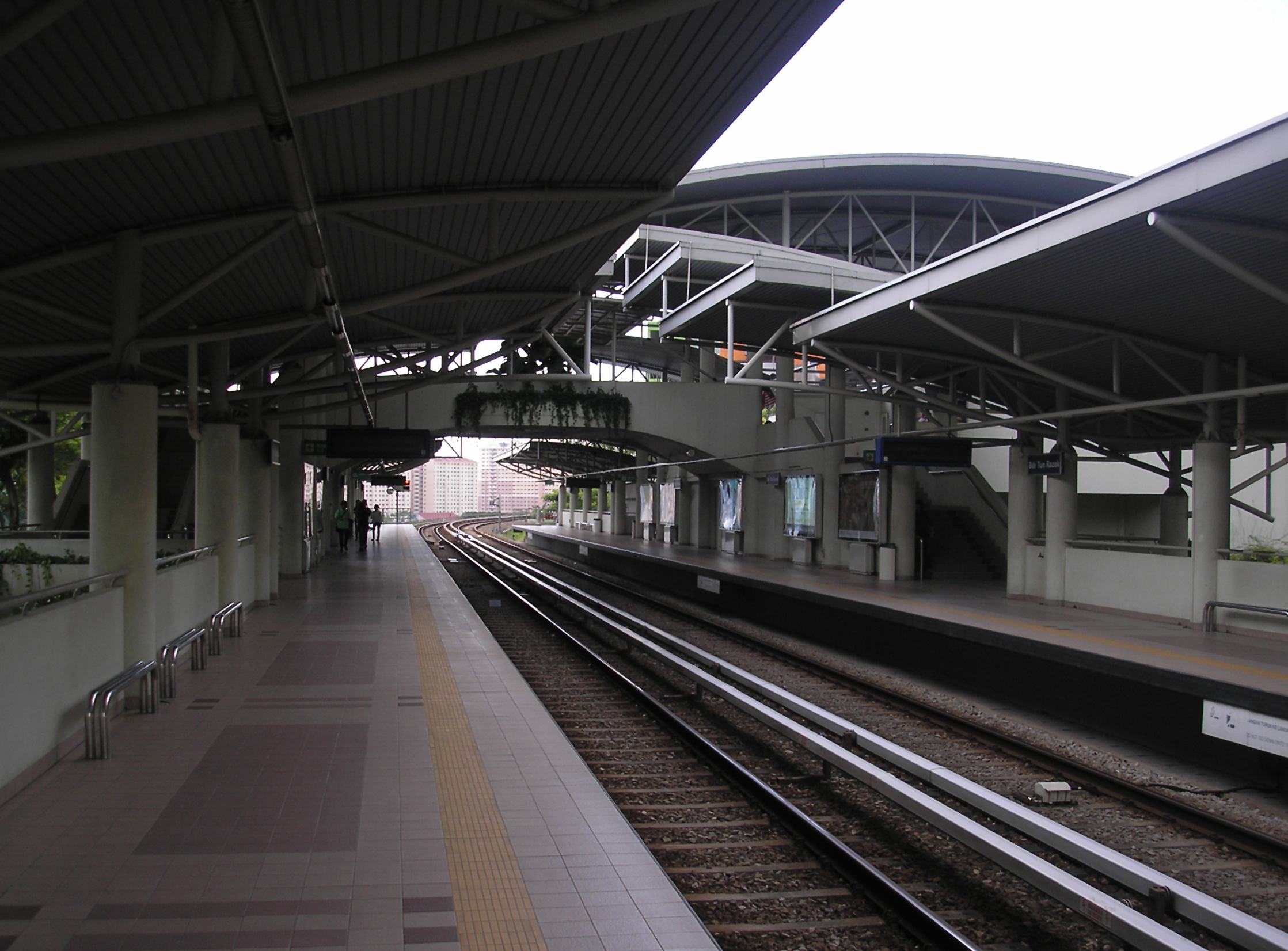 A platform view (towards the northeast) of the Bandar Tun Razak station (Ampang Line, Sentul Timur-Sri Petaling route), in Bandar Tun Razak, Kuala Lumpur, Malaysia.